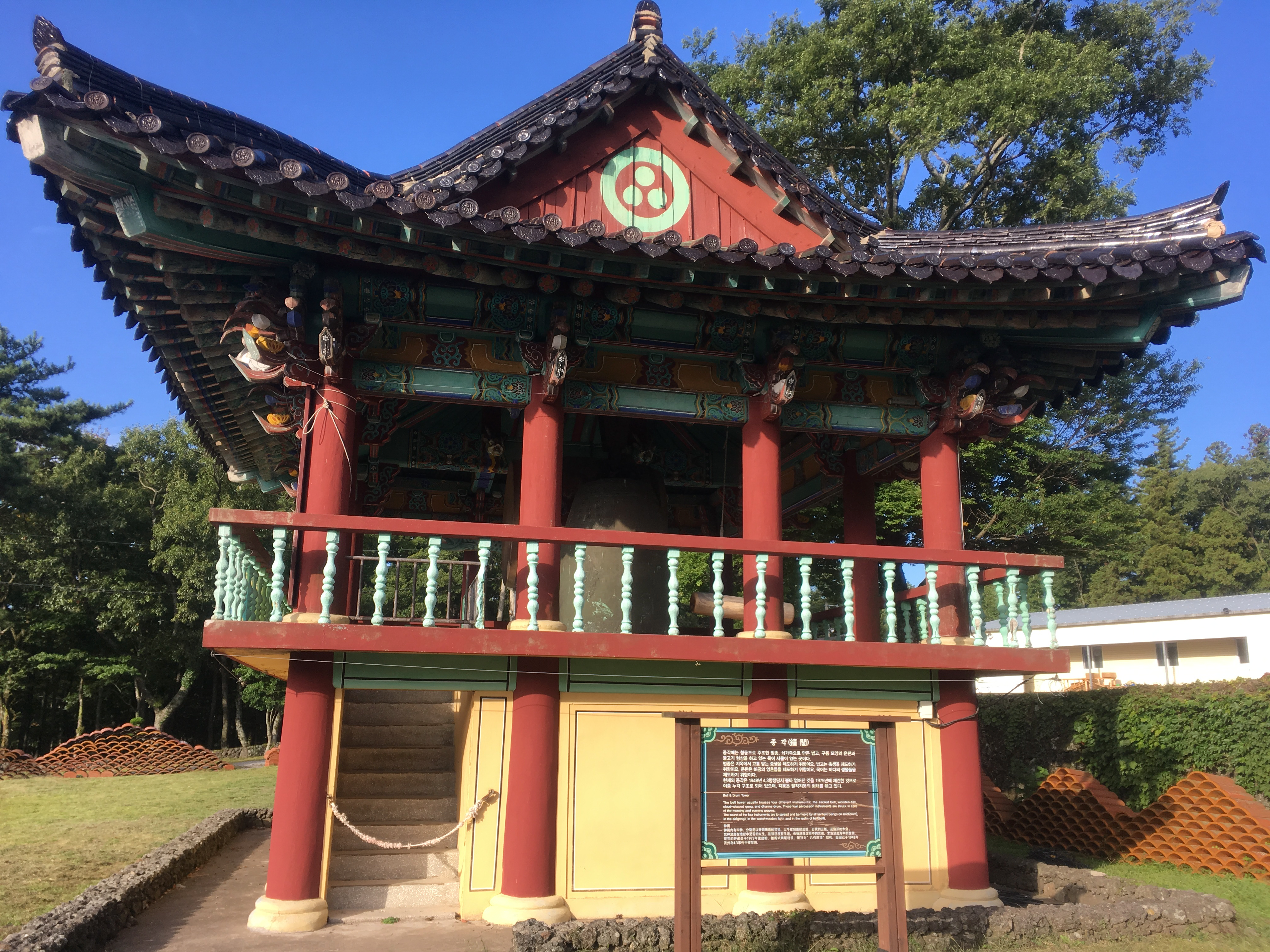 Gwaneumsa Temple